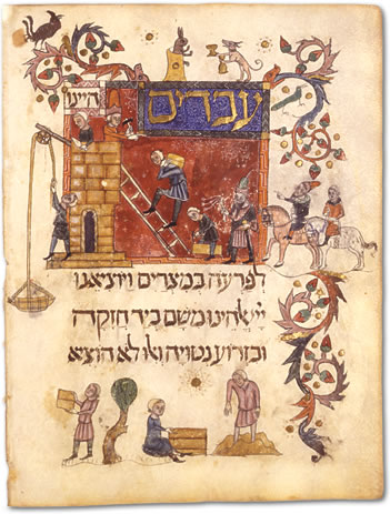 The Barcelona Haggadah Folio 30v - “We were slaves to Pharaoh in Egypt”.